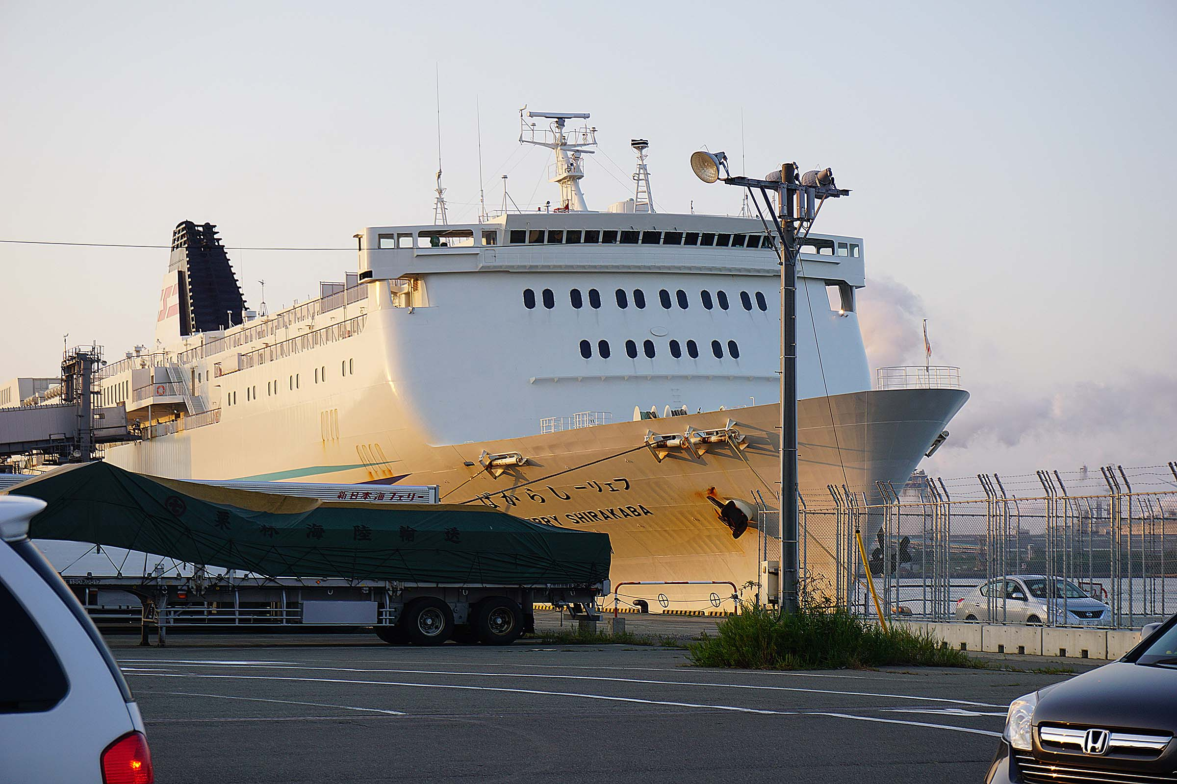 Ferry Shirakaba at Akita ferry terminal